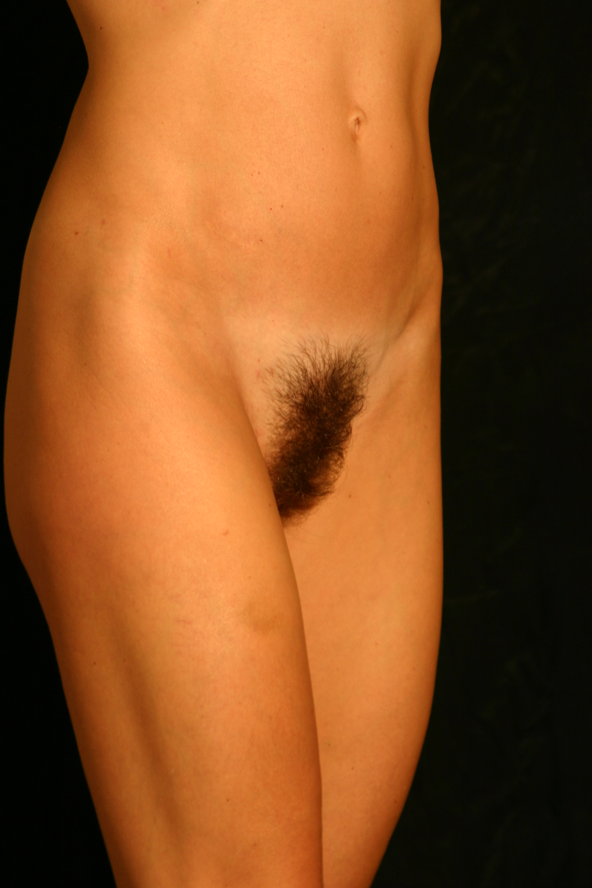 Pubic area (natural untrimmed hair) Model: Titti